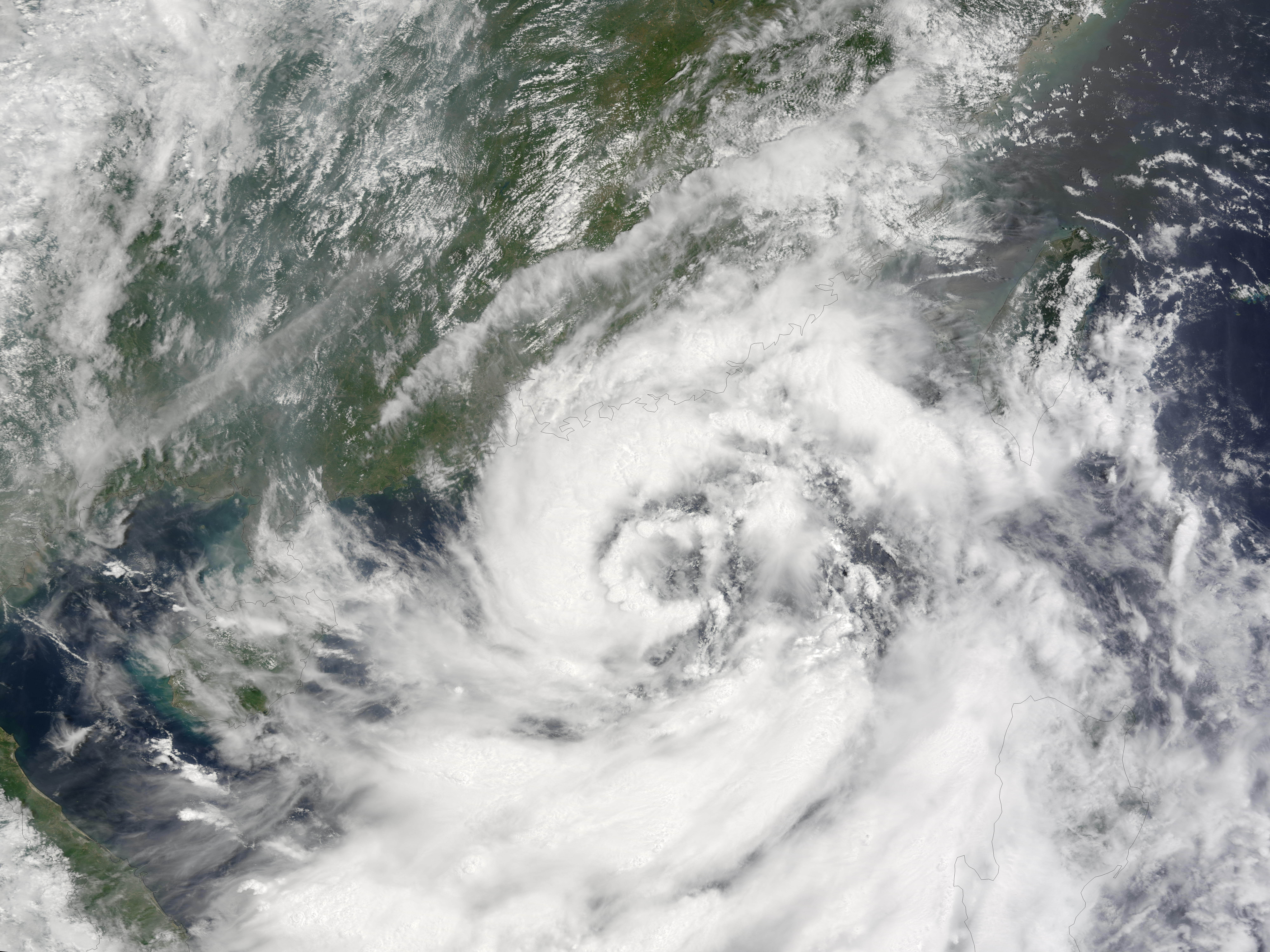 Poised offshore of southern China on August 5, 2008, Tropical Storm Kammuri was a ragged-looking spiral of clouds with only the hint of an eye when the Moderate Resolution Imaging Spectroradiometer (MODIS) on NASA’s Terra satellite passed over head and captured this image. On the day of the image, Kammuri’s winds strengthened from 35 to 45 knots (from 40 to about 52 mph). By August 6, winds had reached 50 knots, and the storm was headed for landfall over Hong Kong, in southern China’s Guangdong Province.